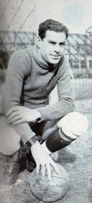 Argentine football goalkeeper Juan Yustrich during his time as a Boca Juniors player 1932-1937.